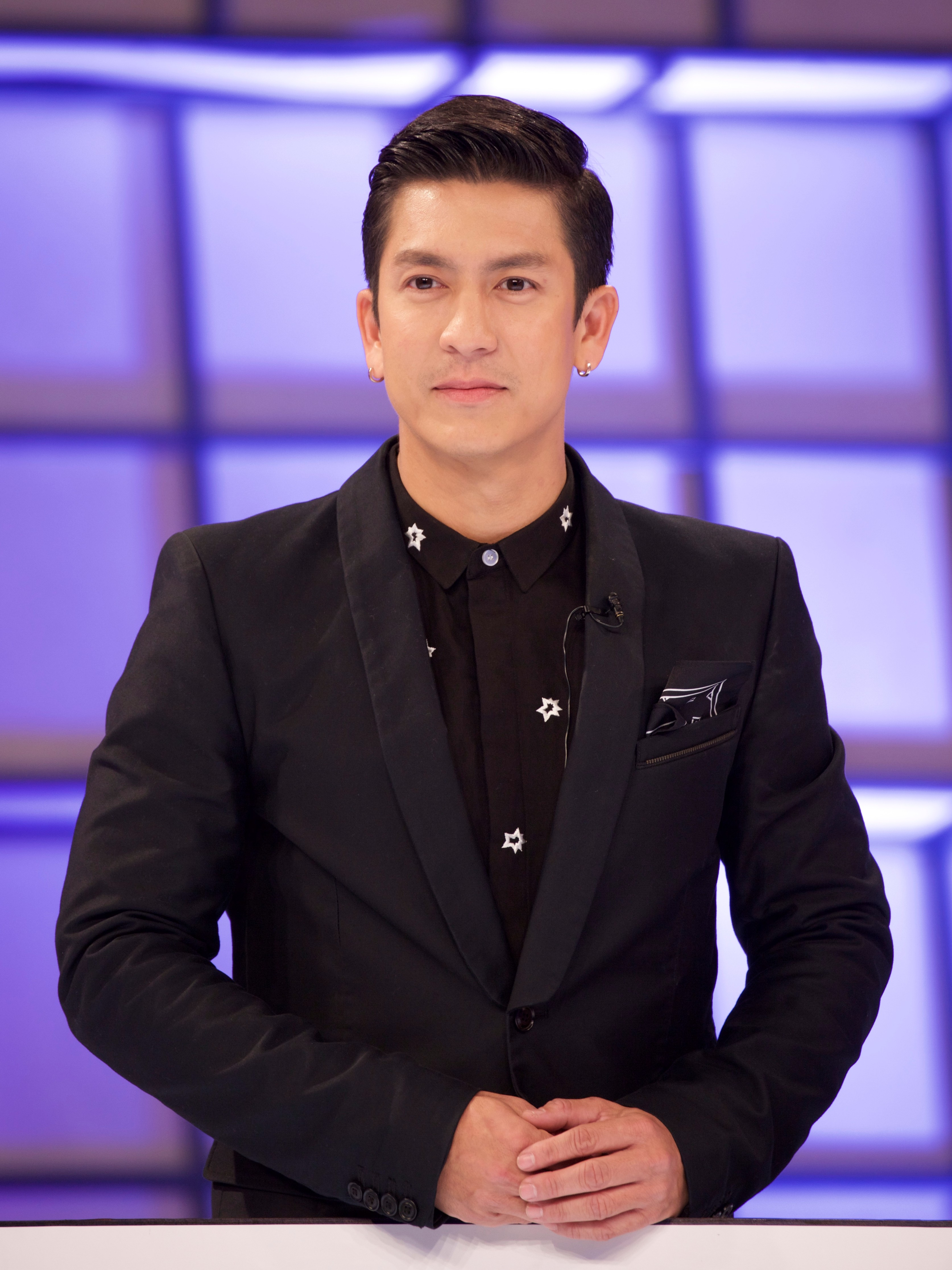 Tik Jesdaporn Pholdee on the Today Show